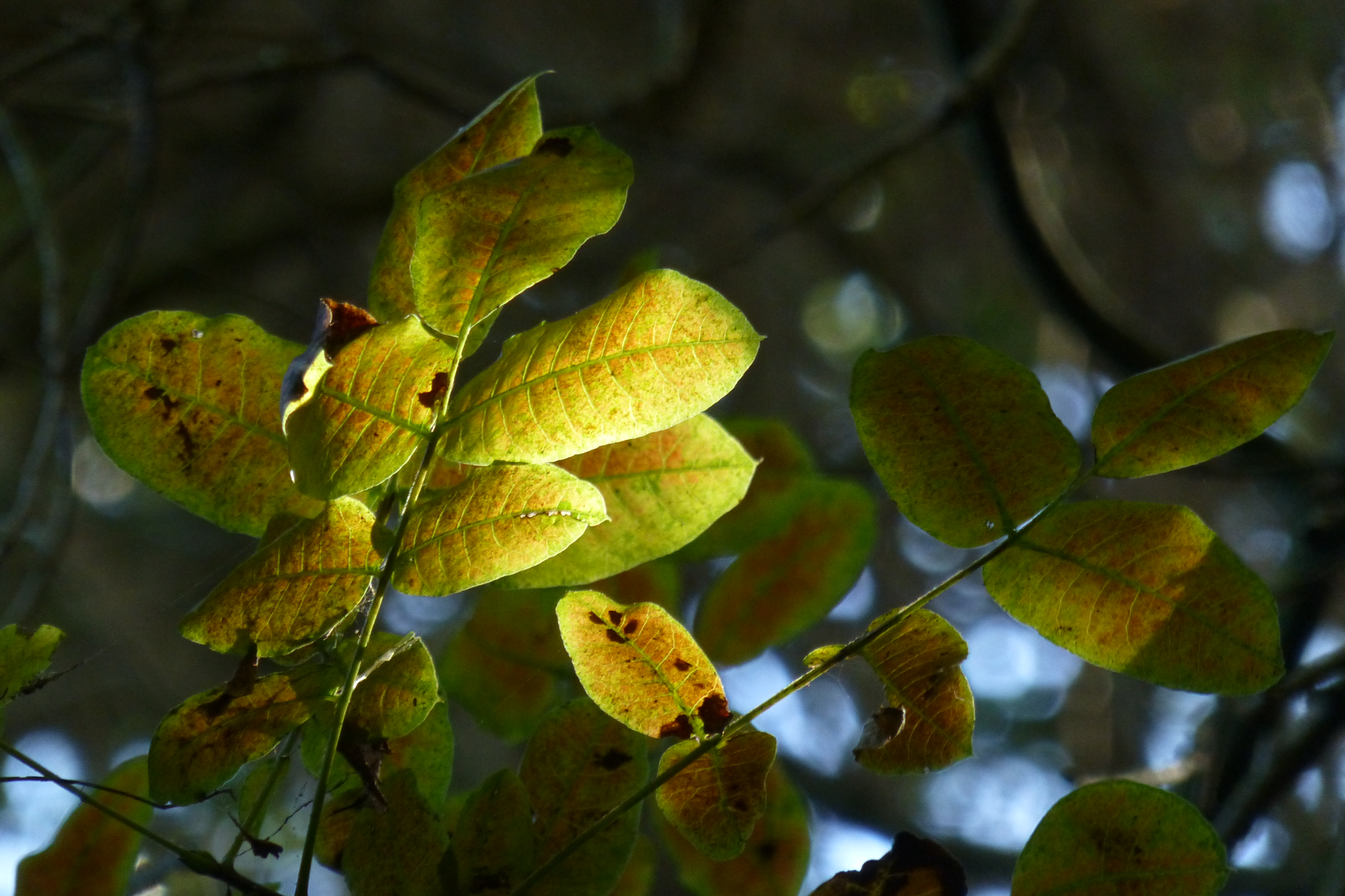 Mount Carmel